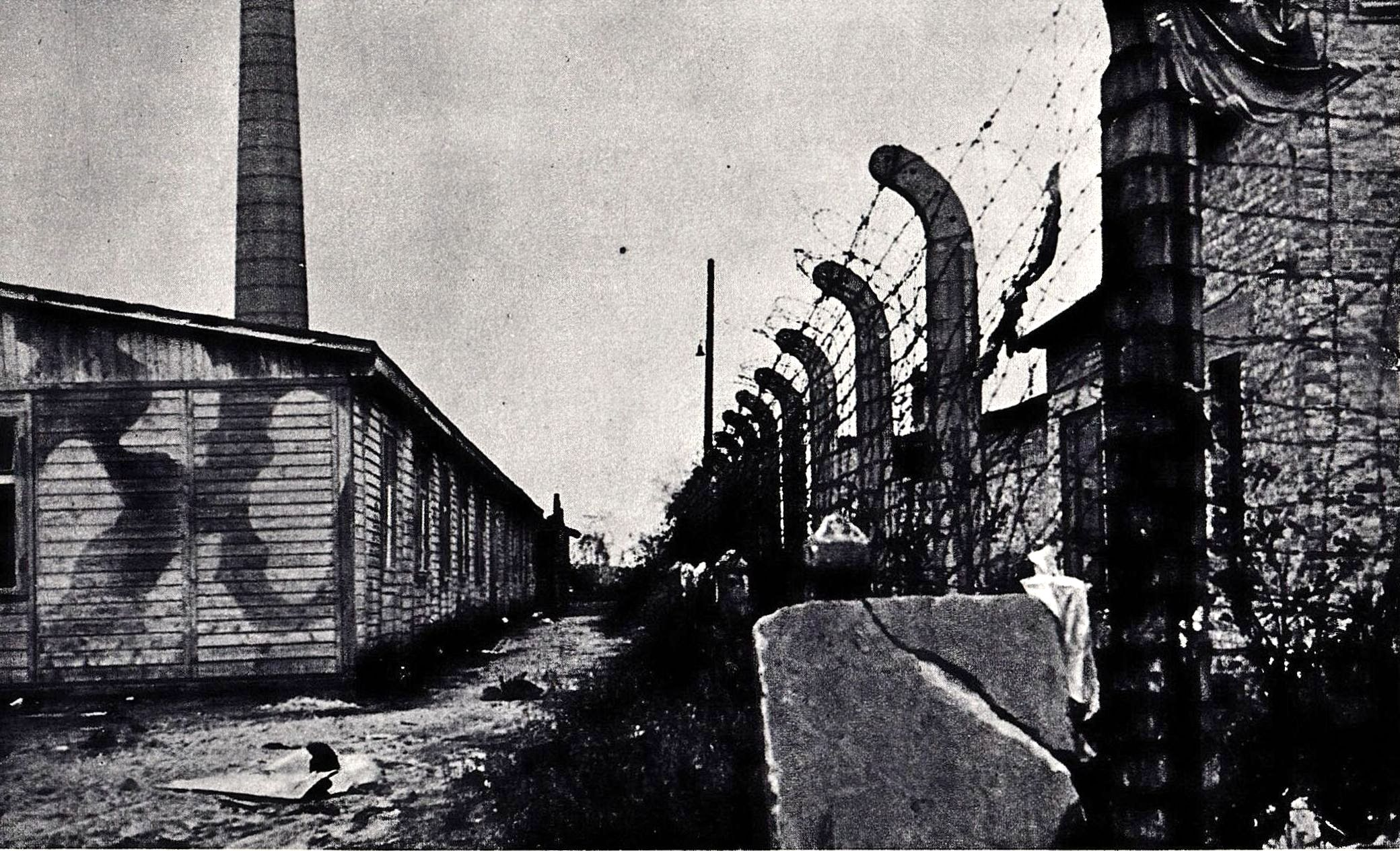 Forced labour camp for Jews established by the Hasag (Hugo Schneider Aktiengesellschaft) company in Częstochowa